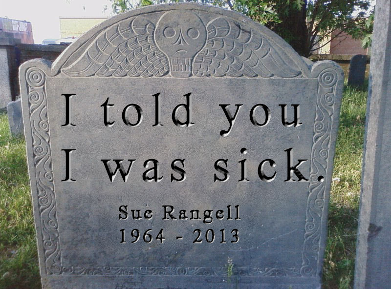 Funny Tombstone created by Sue Rangell Other information Created from publicly available file found in Wikicommons